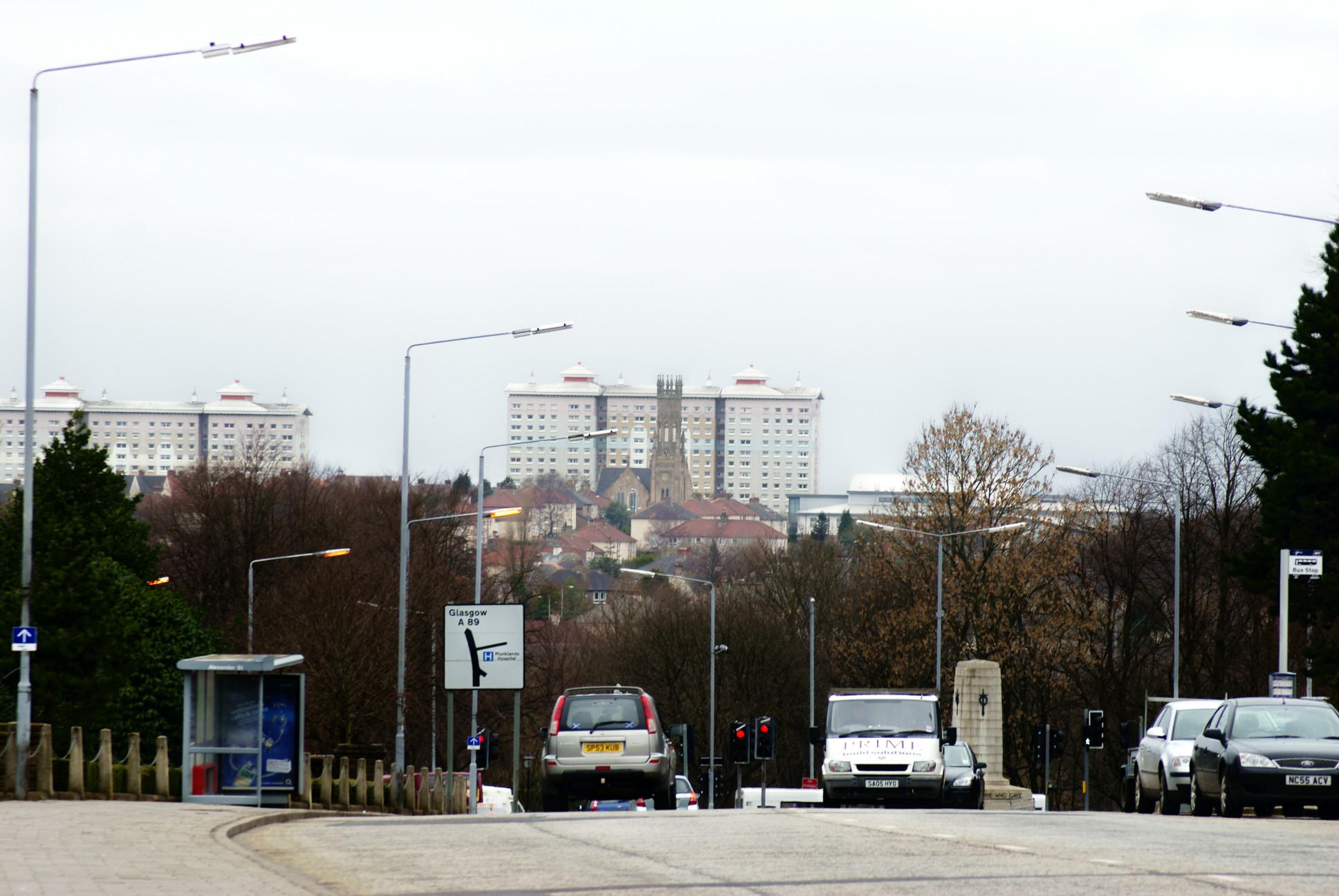 picture of coatbridge. high flats in distance